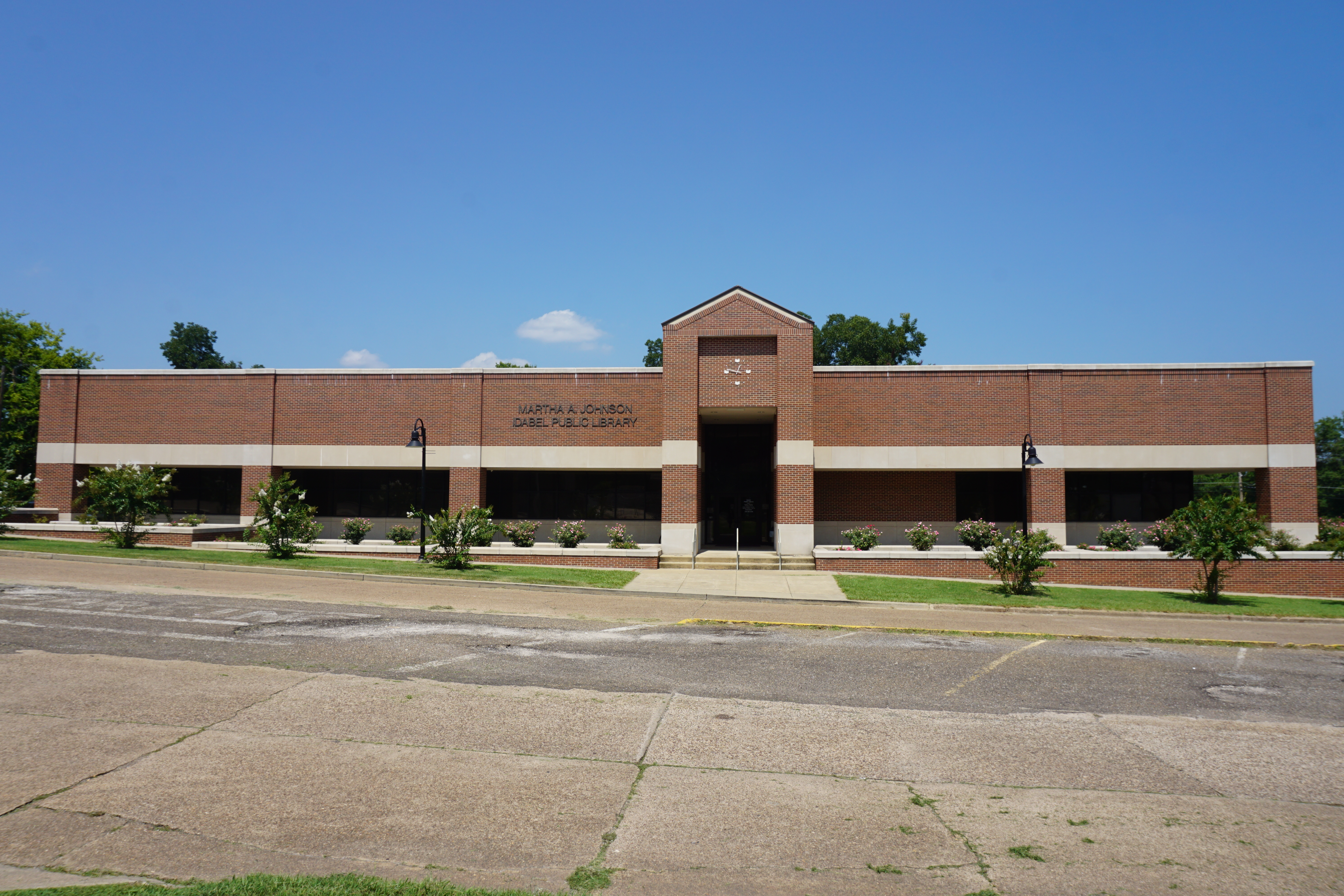 The Martha A. Johnson Idabel Public Library in Idabel, Oklahoma (United States).